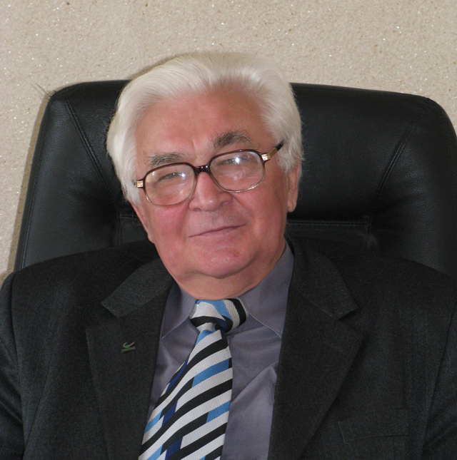 Chekmarev A.M.